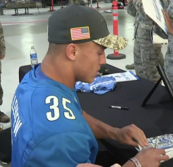 The Detroit Lions visited Selfridge ANGB, Michigan on November 15th, 2016 as part of the NFL's "Salute to Service" program. Players, Cheerleaders, Team Mascot "Roary," and Lions President Rod Wood met, took pictures with, and signed autographs for service members and their guests.